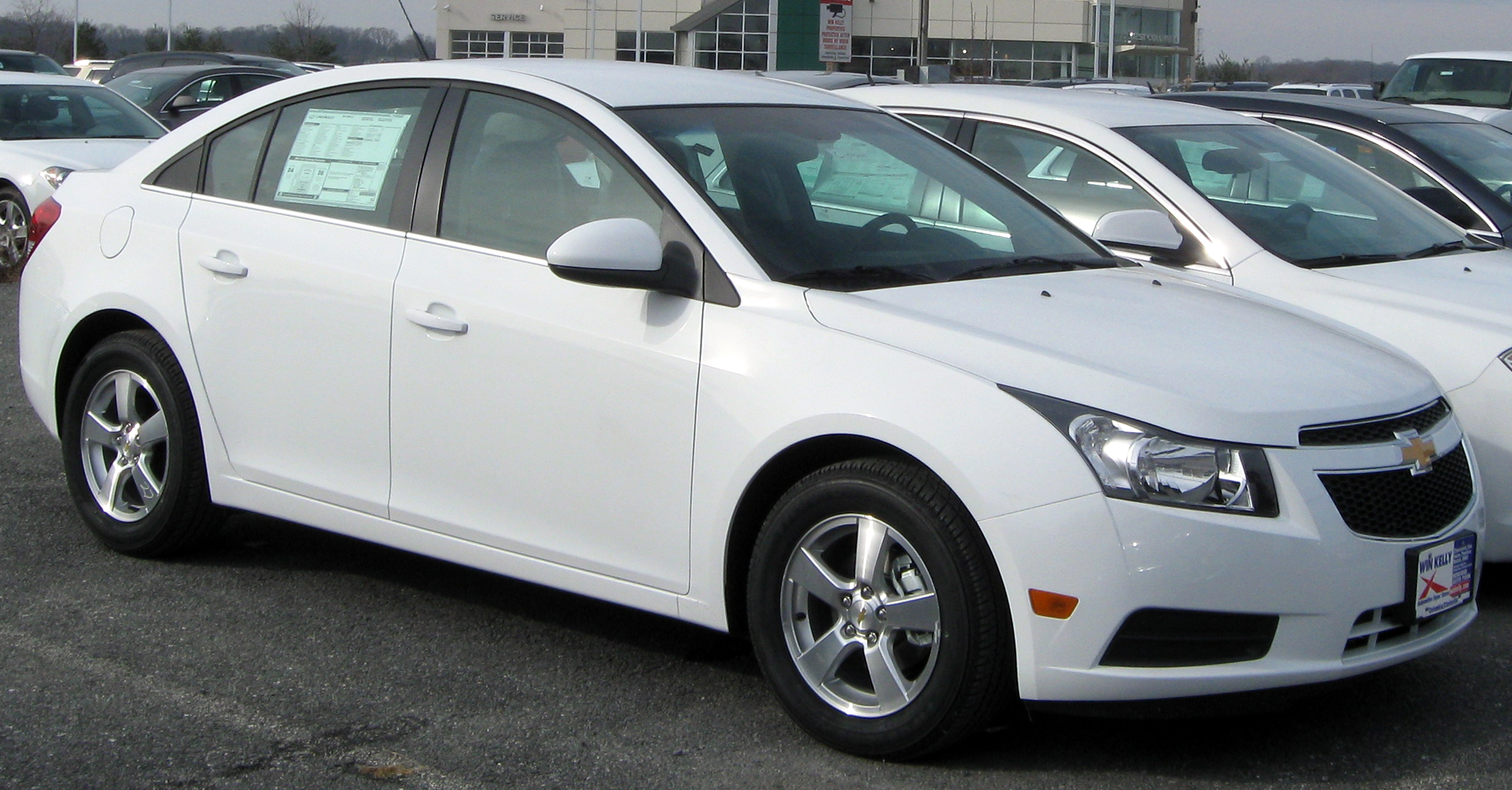 2011 Chevrolet Cruze photographed in Clarksville, Maryland, USA.